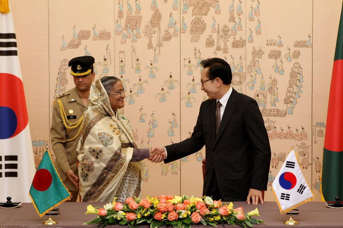 President Lee Myung-bak and visiting Bangladesh Prime Minister, Sheikh Hasina